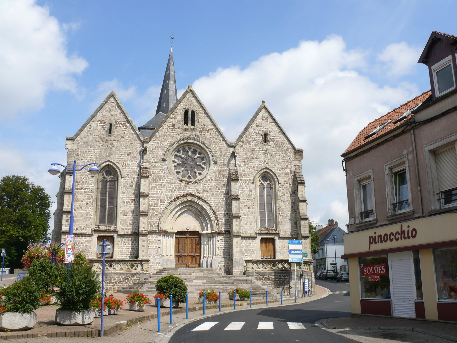 Saint-Savior's church of Desvres (Pas-de-Calais, France).